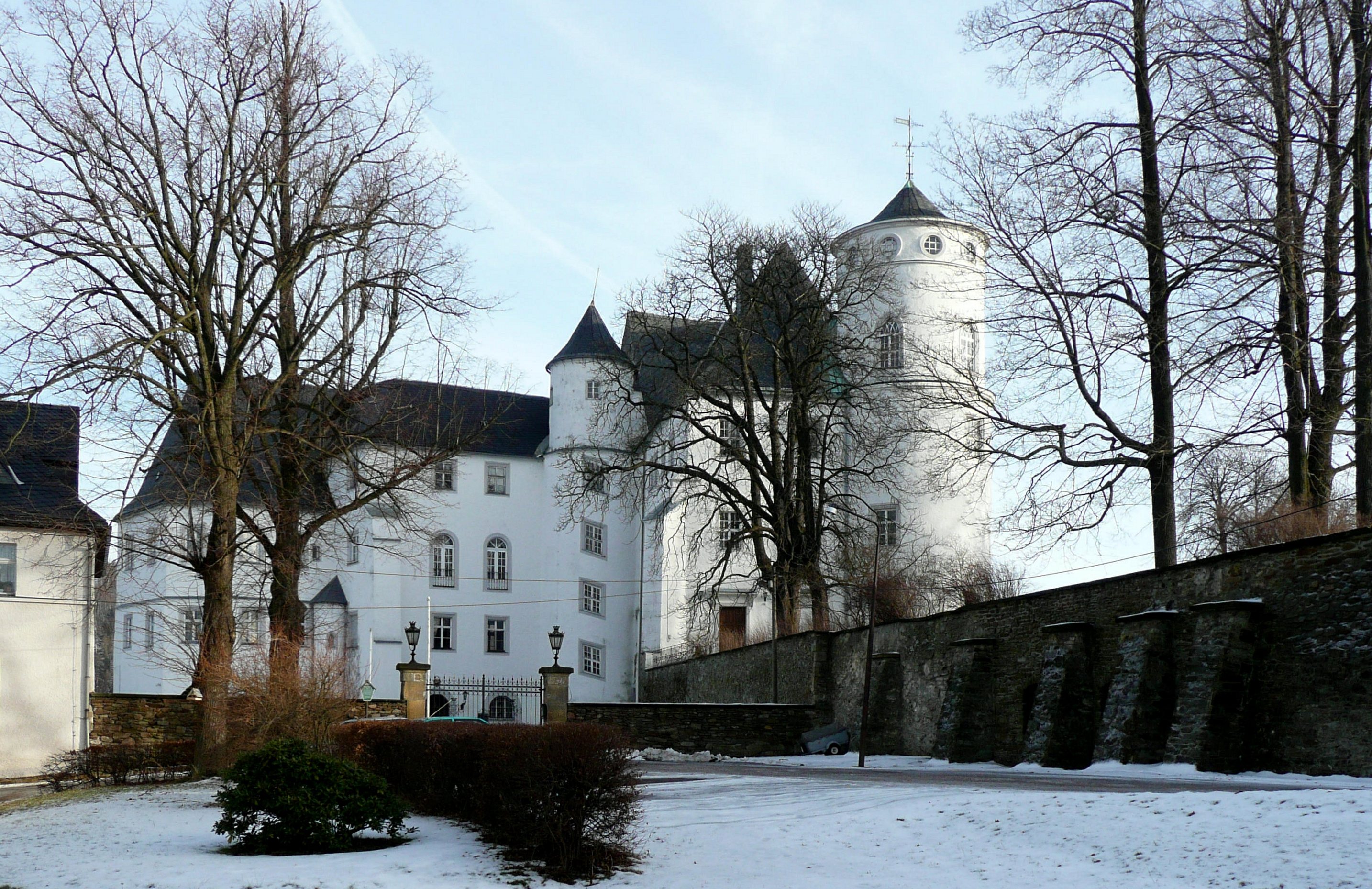 This image shows Schloss Bärenstein (Bärenstein Castle) near Altenberg in the Ore Mountains.